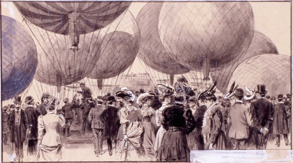 Fiesta de aeroestación, detalle, publicado el 8.11.1905 en La Ilustración Española y Americana, Real Academia de Bellas Artes de San Fernando, Madrid, dibujo por Mariano Pedrero. En la publicación en la revista la imagen es descrita de la siguiente manera: «Los globos en disposición de partir en el Parque de Aerostación de la calle del Gasómetro».